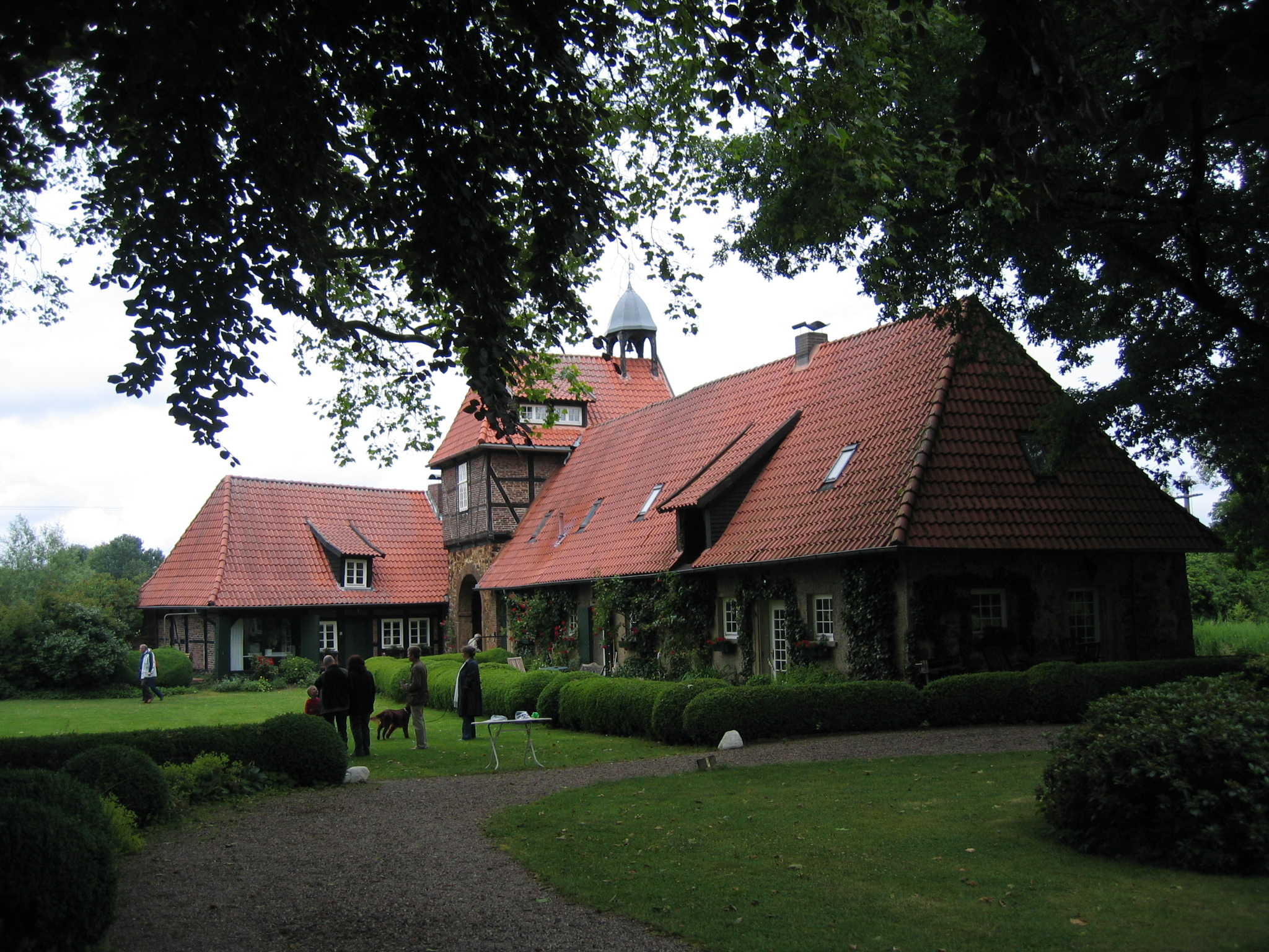 Stockhausen Manor in Lübbecke, District of Minden-Lübbecke, North Rhine-Westphalia, Germany.